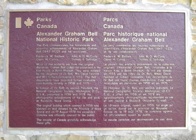 A plaque at the Alexander Graham Bell National Historic Park in Baddeck, Nova Scotia, Canada. Plaque refers to the Alexander Graham Bell Museum on the same site, opened earlier in 1956.